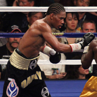 Daniel Jacobs (left) versus Michael Walker. The fight took place on on May 2, 2009, at the MGM Grand in Las Vegas